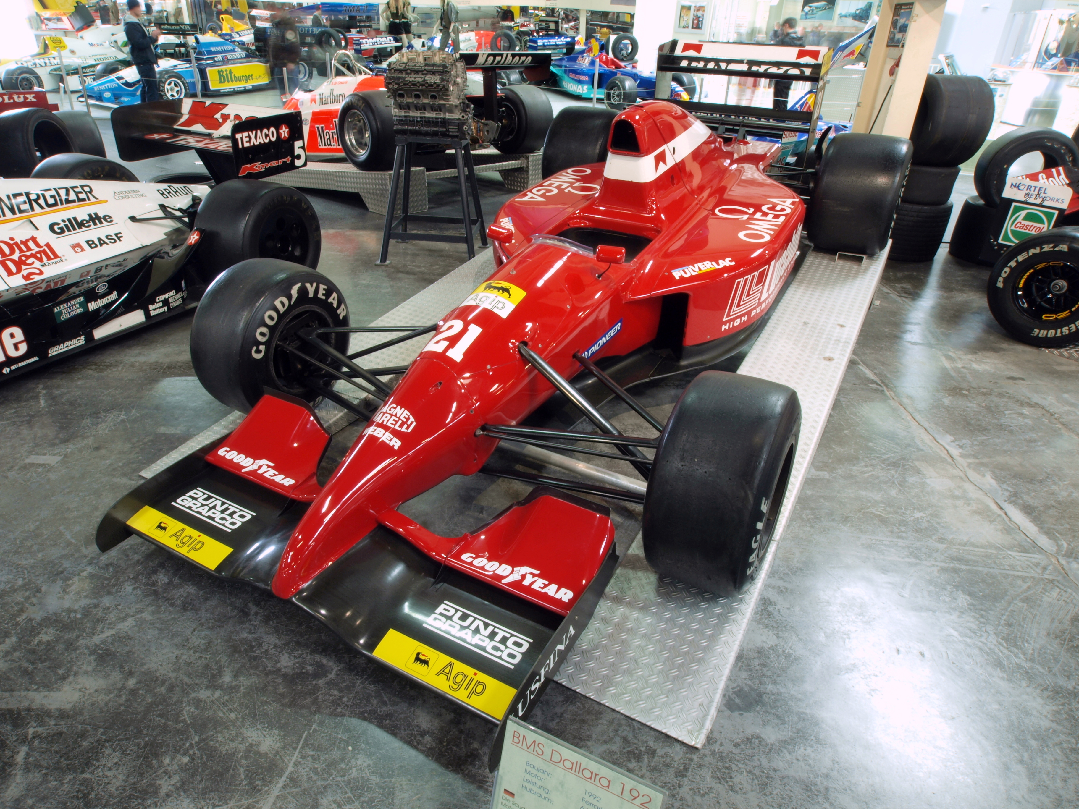 Photographed at the Auto & Technic museum Sinsheim.